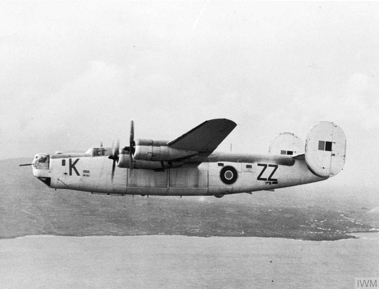 The Battle of the Atlantic 1939-1945 Allied Aircraft: Consolidated Liberator GR Mk VI, KG869 'ZZ-K', of No. 220 Squadron Royal Air Force, based at Lagens, Azores, in flight off Terceira.